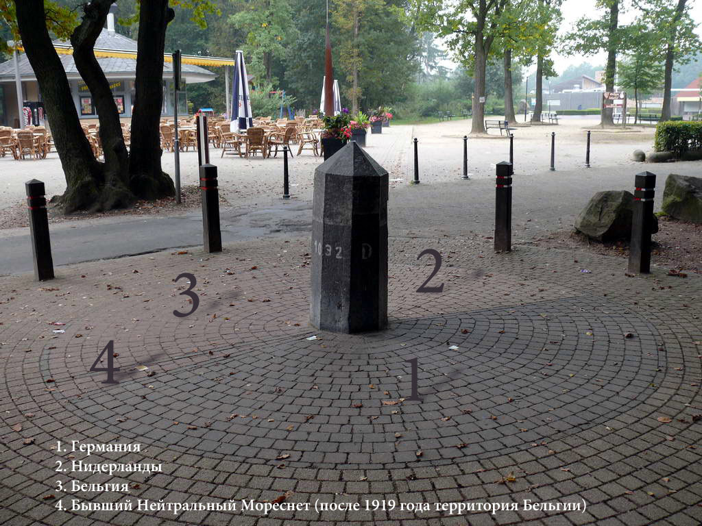 Former connection point of the state borders of Germany, Holland, Belgium and Moresnet Neutral Territory (until 1919)